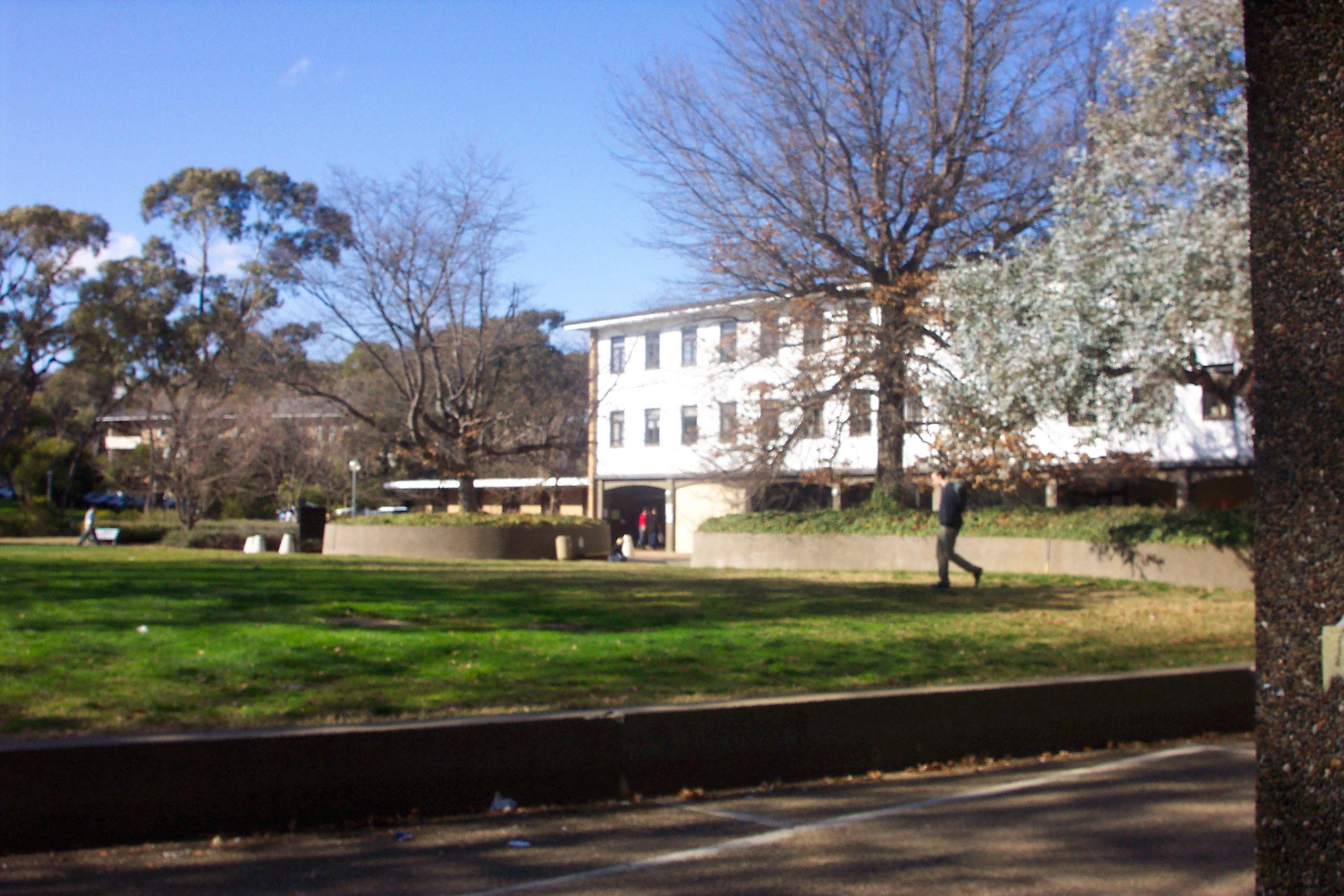 Australian National University College of Law, Canberra Australia.